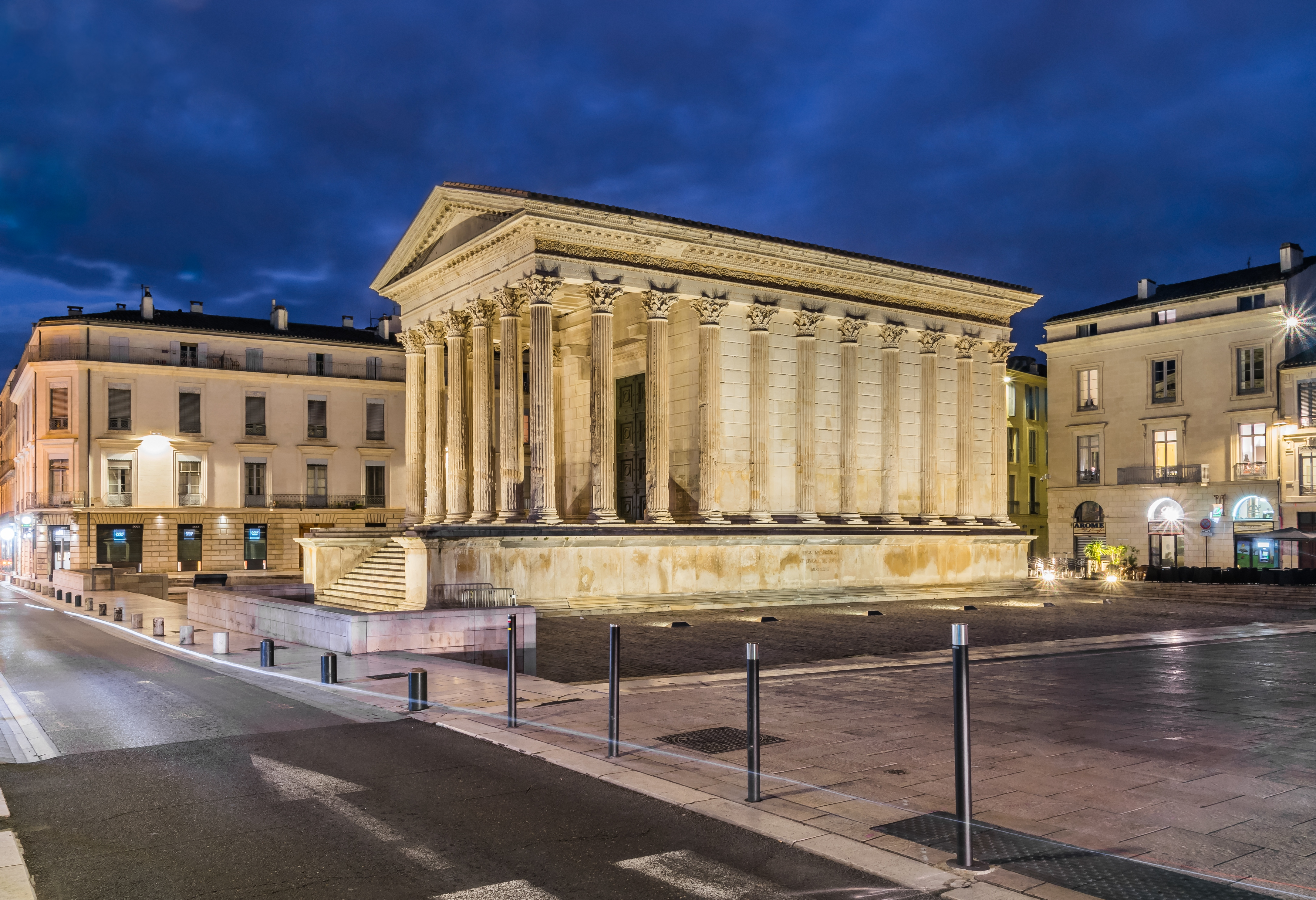 Maison Carrée in Nîmes, Gard, France .